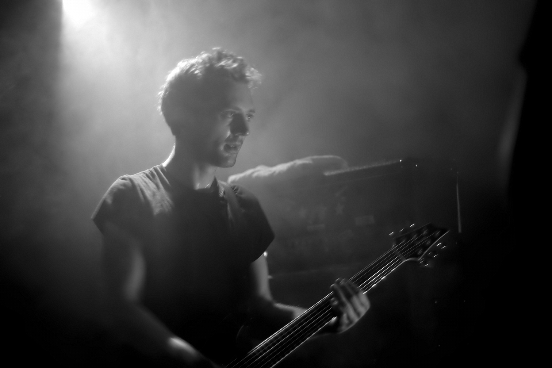 Paul Wolinski of 65daysofstatic